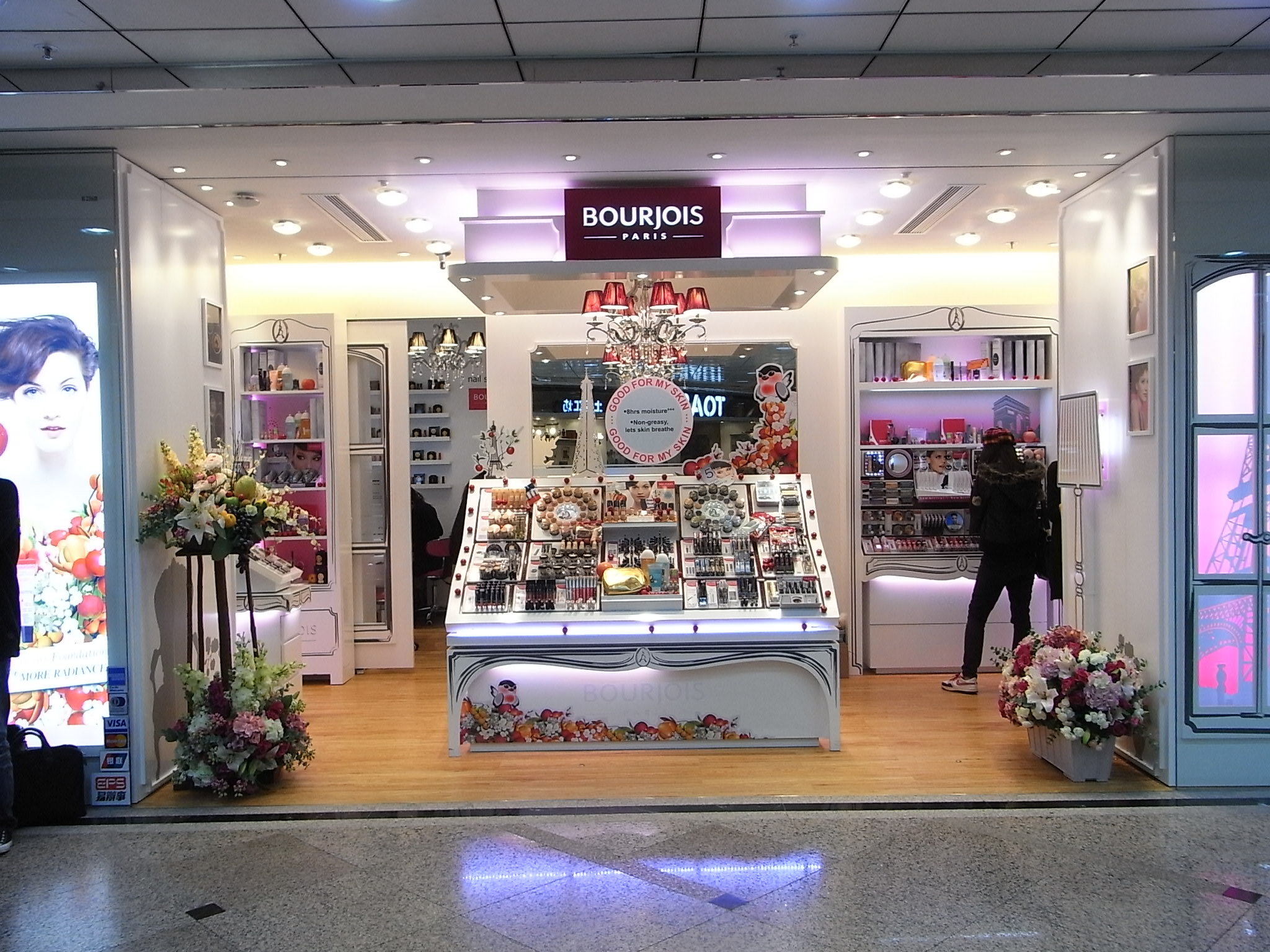 香港時代廣場 地庫商場